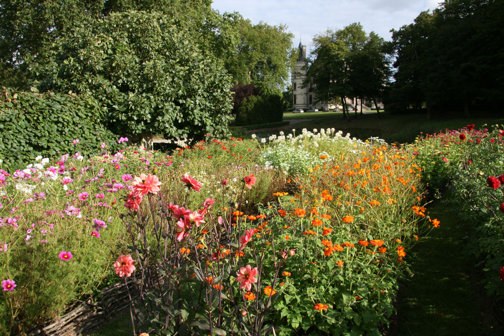 Zinnias multicolores et cosmos in the vegetable garden at château de La Baronnière.